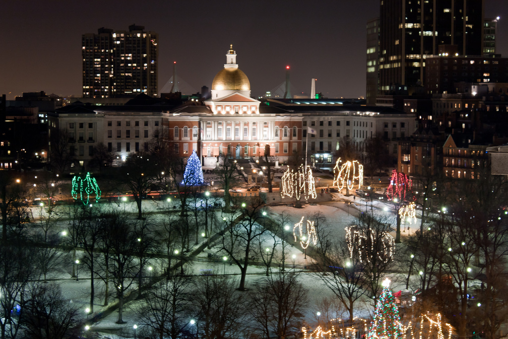 State House on First Night